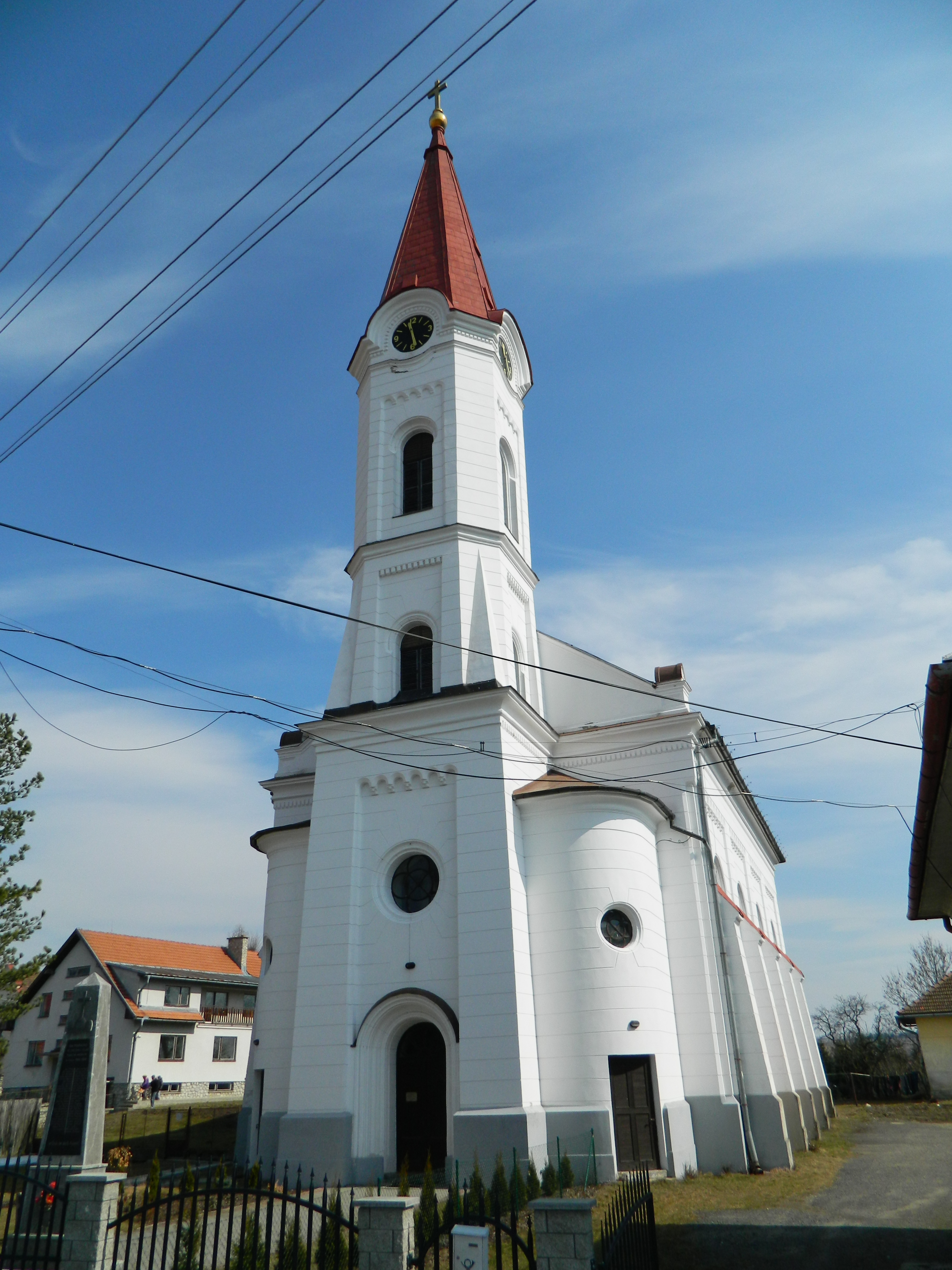 Evangelical Church Pribylina